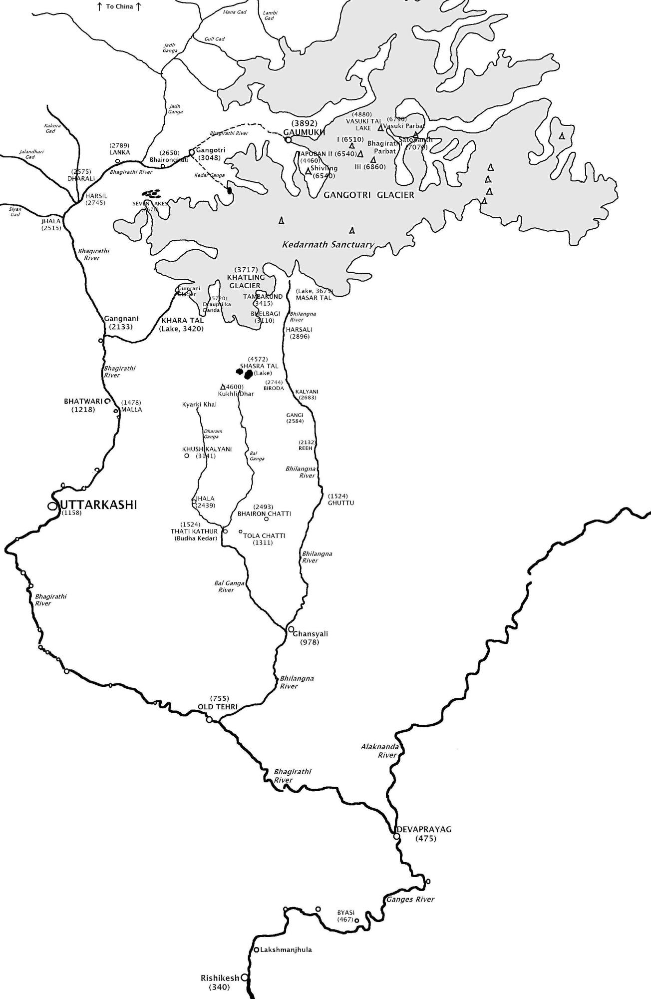 Map showing the Himalayan headwaters of the Bhagirathi River (as well as its course), the source stream of the Ganges river of the Indian subcontinent. That map in turn is based on the map of the region produced by the Surveyor General of India.